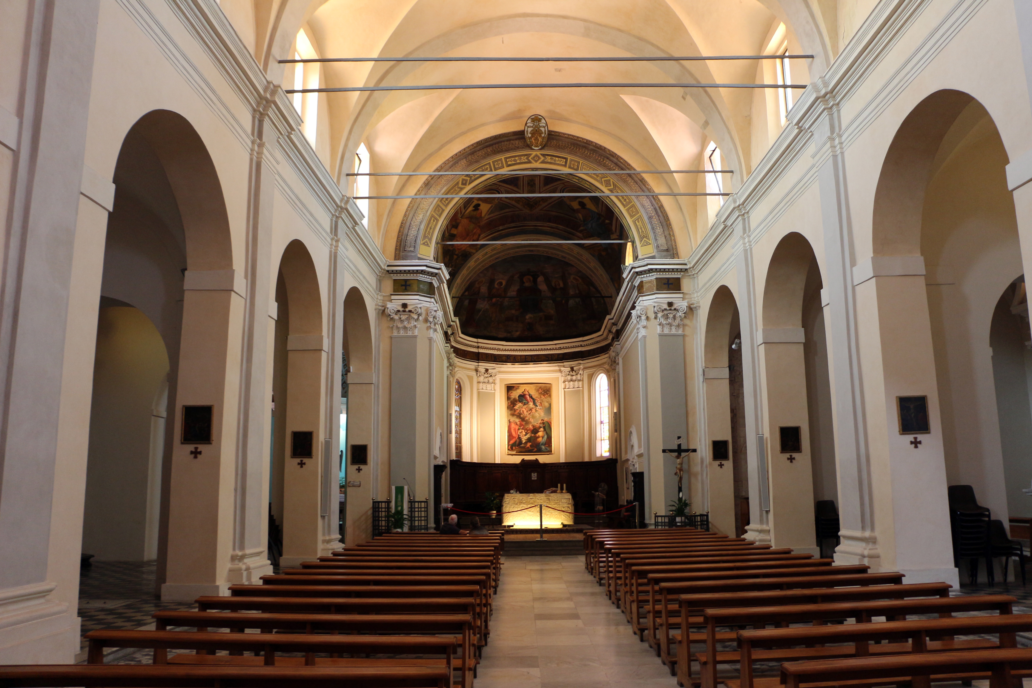 Duomo (Orbetello)